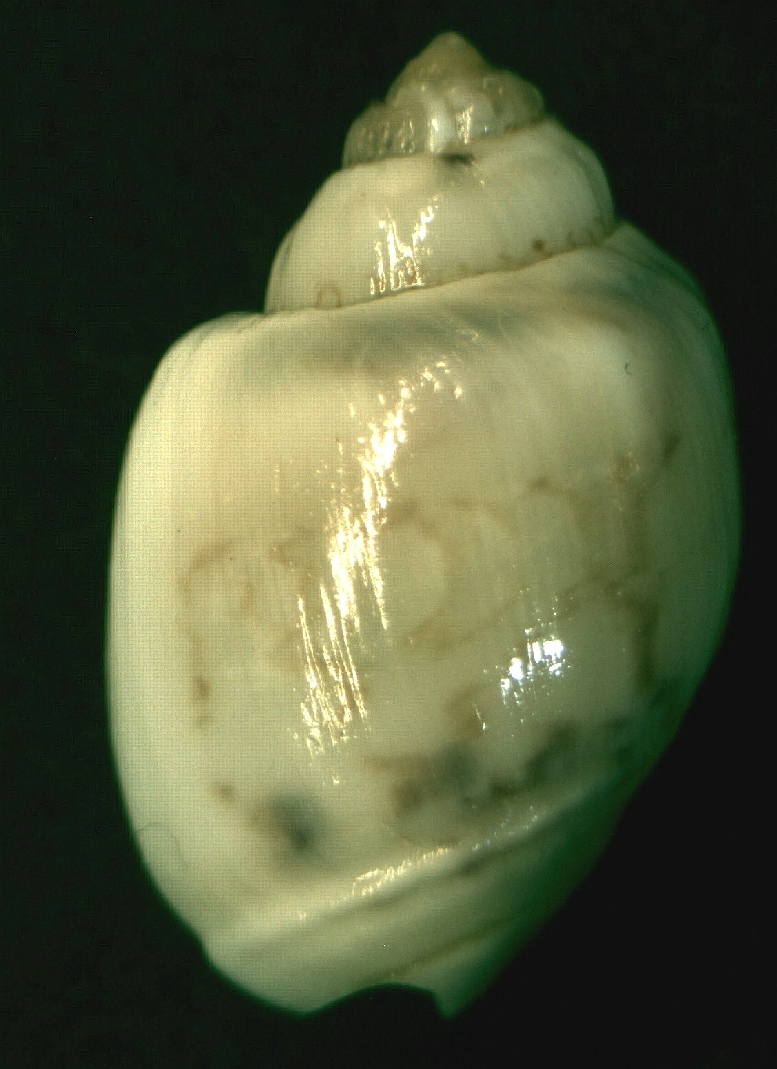 Nassarius (Nassodonta) dorri, Wattlebed, 1886, a nassa mud snail from the family Nassariidae; Vietnam